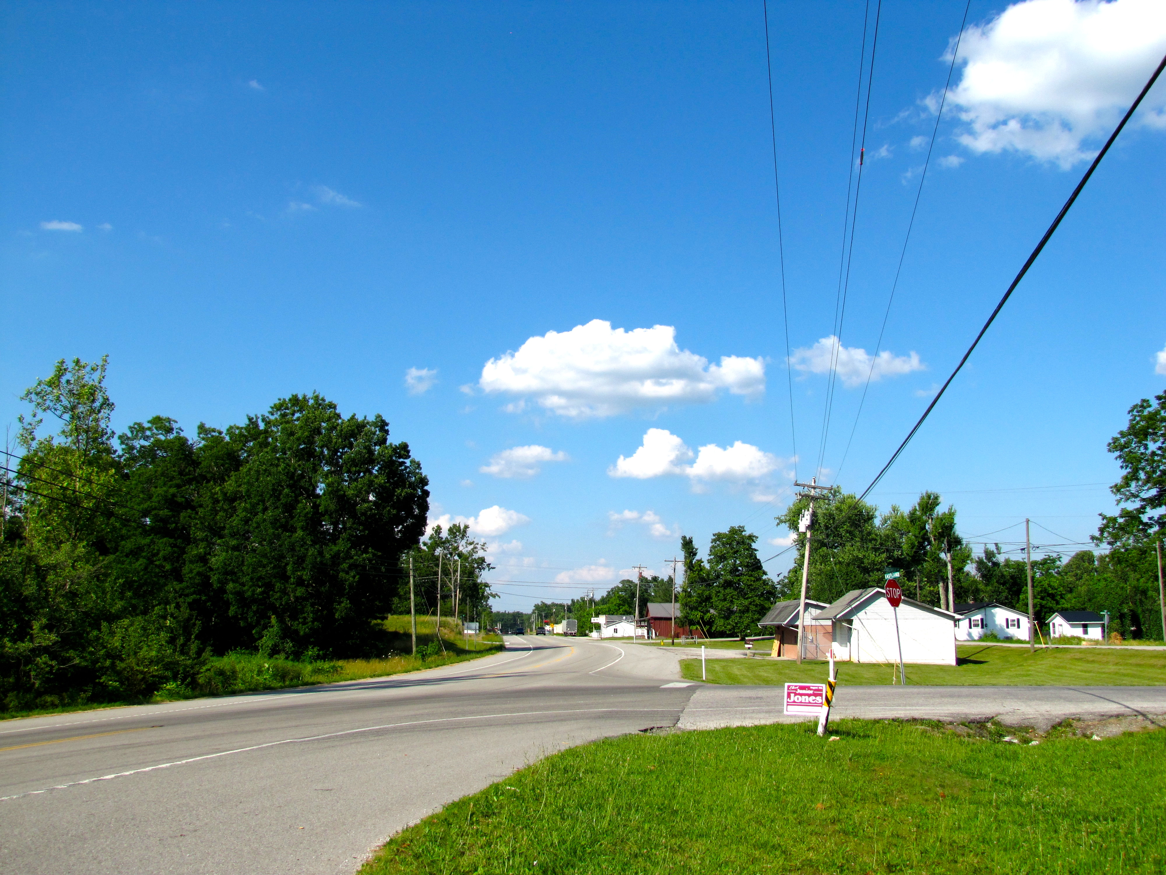 Businesses along U.S. Route 70 in DeRossett, Tennessee, United States.